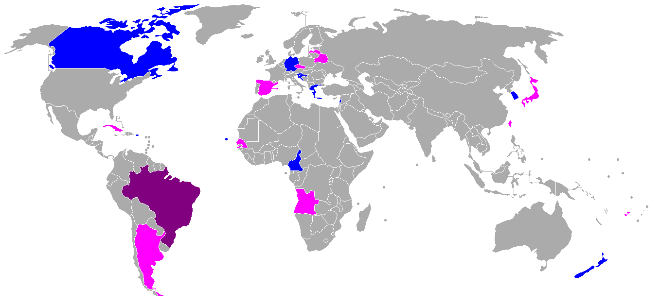 Countries that qualified for the FIBA World Olympic Qualifying Tournament 2008: Blue = men Purple = both men and women Pink = women